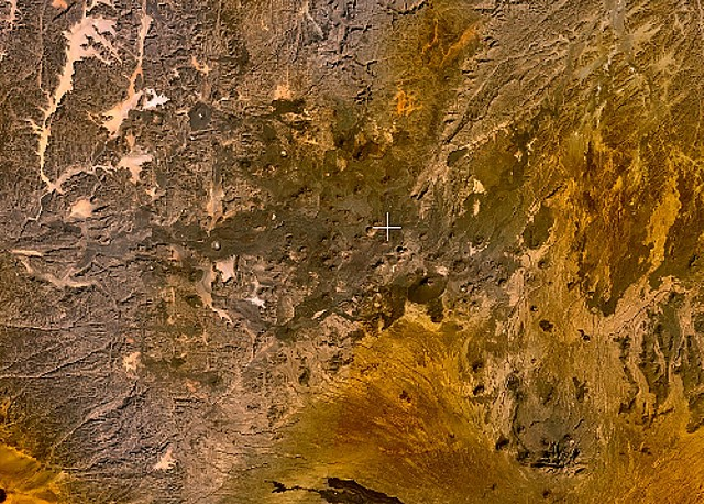 Small cinder cones and lava flows of the Tarso Tôh volcanic field can be seen in the large darker-brownish area at the center of this NASA Landsat image. This Pleistocene-to-Holocene volcanic field in the Tibesti Range of Chad covers a 30 x 80 km area and contains 150 scoria cones and two maars. Basaltic lava flows at Tarso Tôh were erupted over a basement of Precambrian schists and Paleozoic sandstones. The black lava flows at the very bottom-center are distal lava flows from Tarso Toussidé volcano.